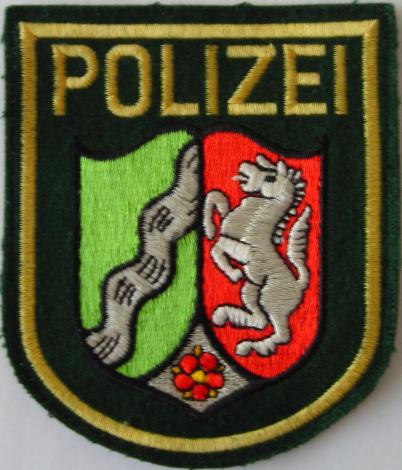 Uniform Patch of the North Rhine-Westphalia State Police.